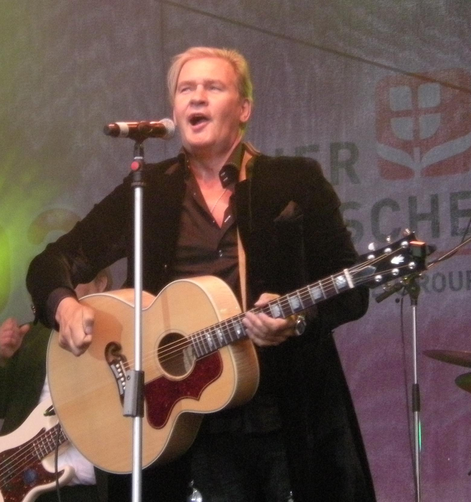 Donauinselfest 20090628 Johnny Logan 025 Note: EXIF time is set to UTC, which is local time-2.